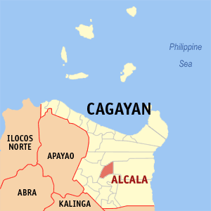 Map of Cagayan showing the location of Alcala